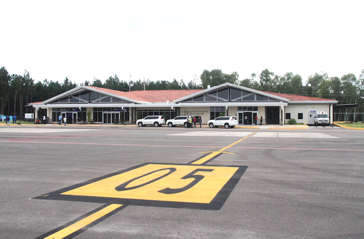 Scarlett Martinez Airport Coclé, Panamá